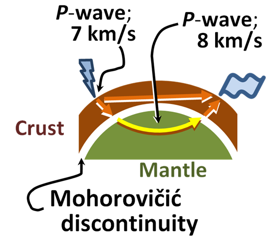 Refraction of P-wave at Mohorovičić discontinuity